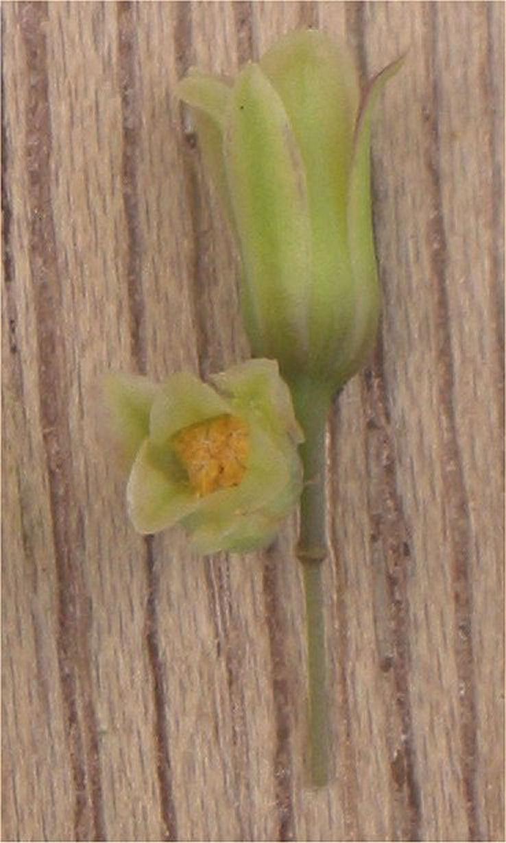 (nl: Asperge bloem) Asparagus officinalis flower